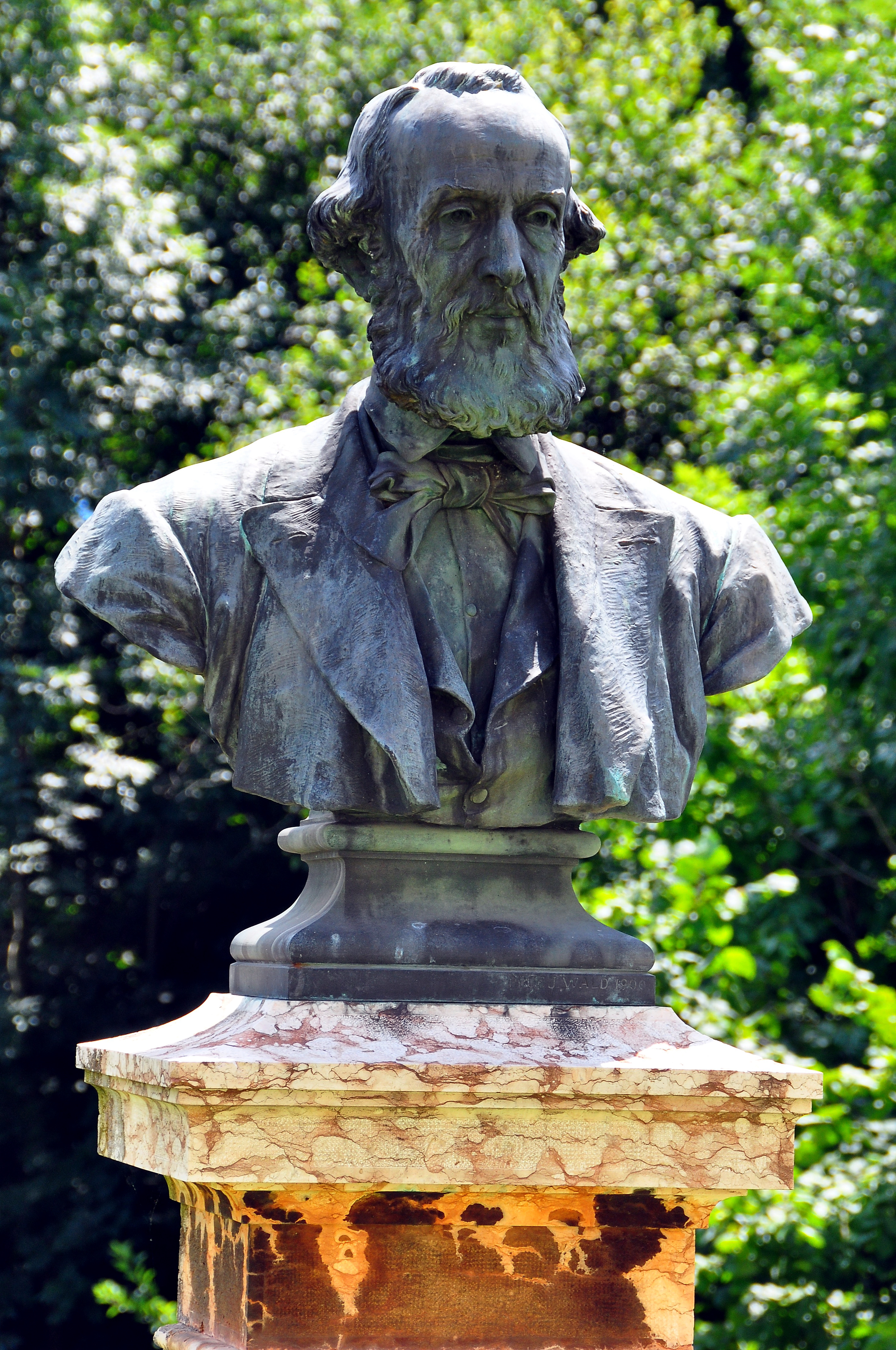 Max Ritter von Moro´s bust at the old cemetery of Stein, next to the parish church Saint Florian, 13th district Viktring, municipality Klagenfurt on the Lake Woerth, district Klagenfurt Land, Carinthia, Austria, EU